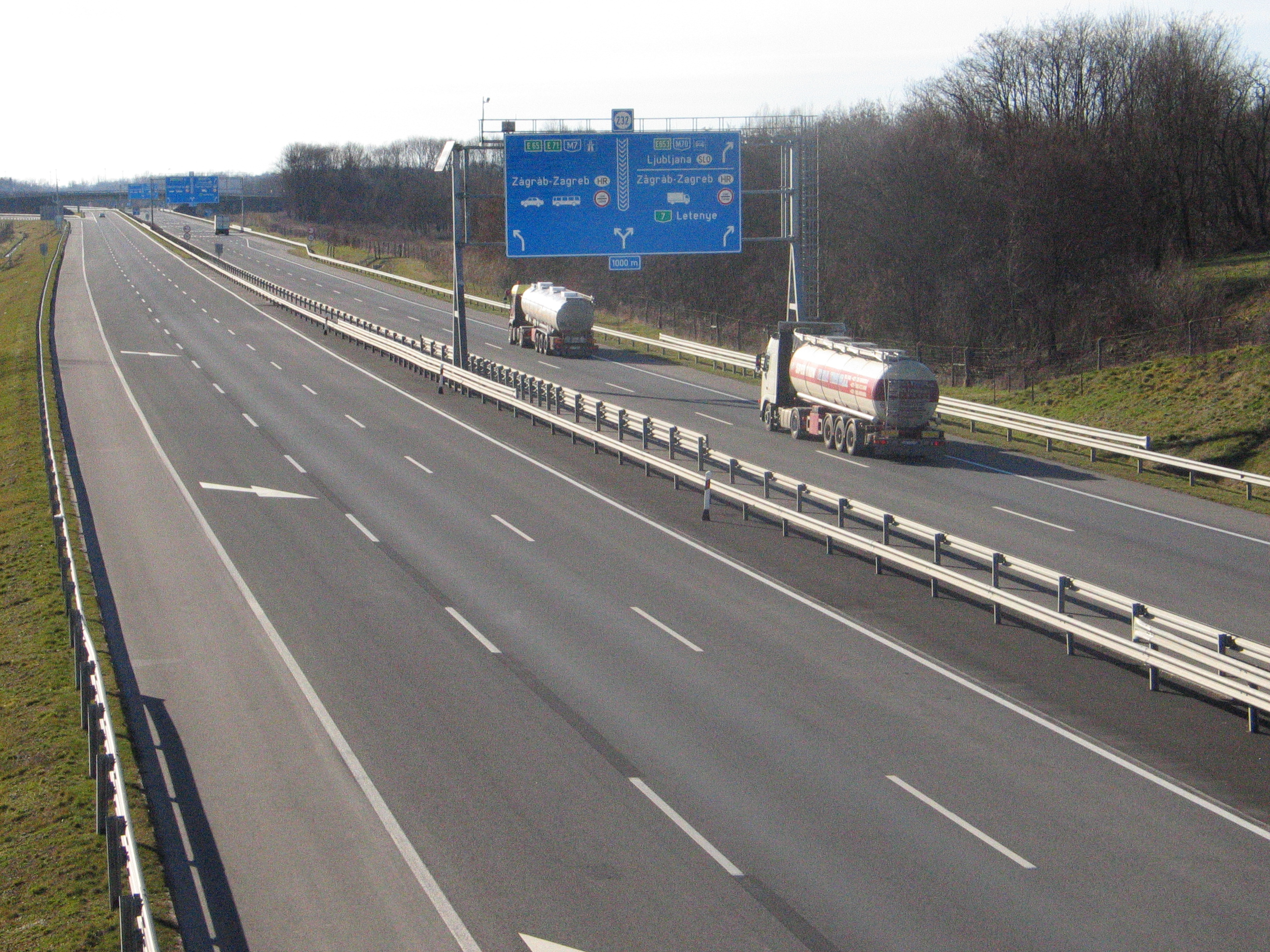 M7 motorway, near Letenye, Hungary.